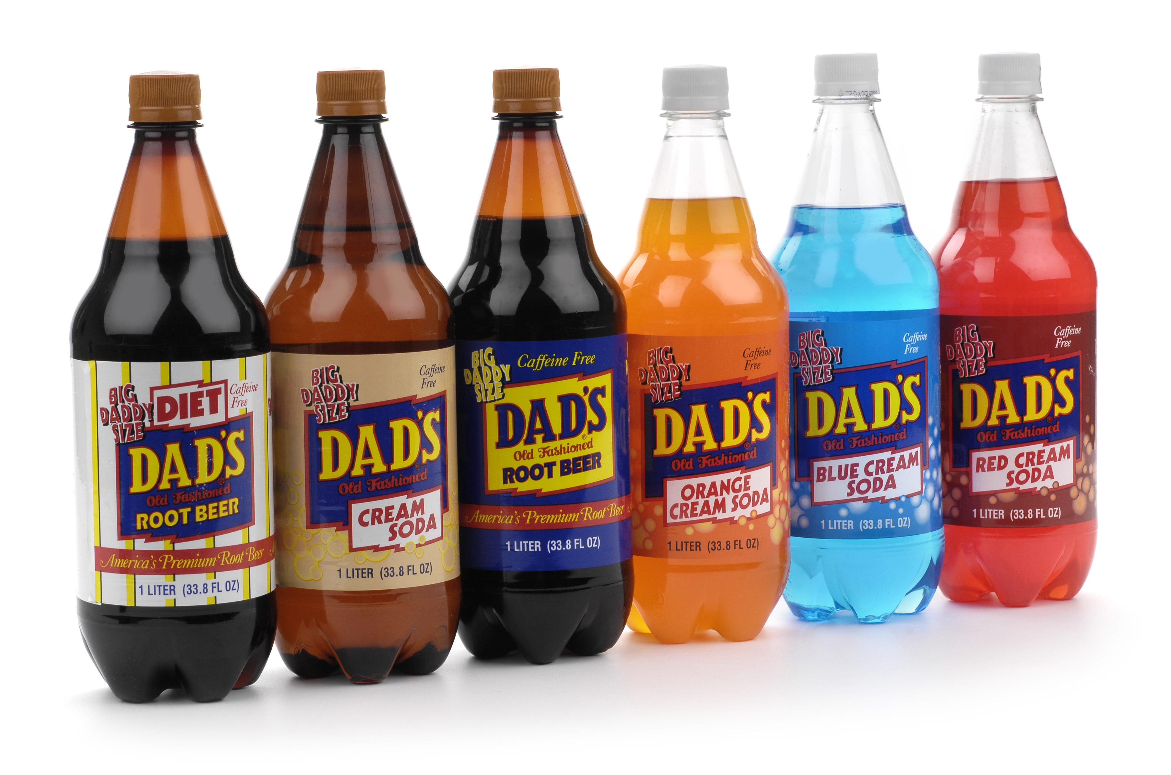 Dad's Root Beer products shown in 1-liter bottles.